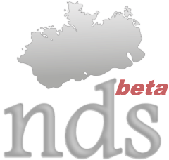 Logo of the Low Saxon online dictionary Plattmakers.de